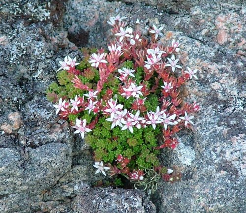 Sedum anglicum